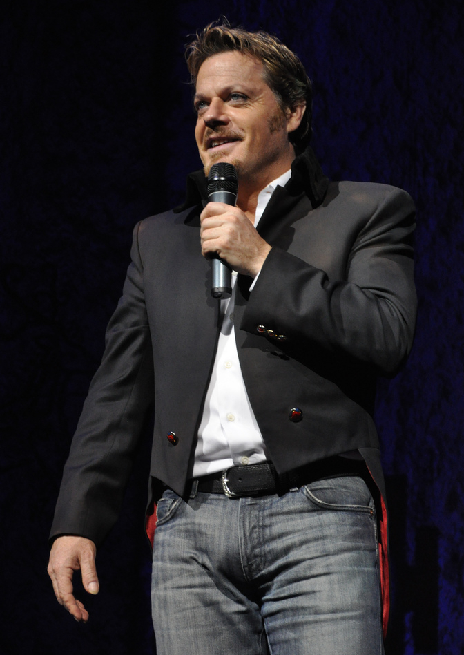 Eddie Izzard at The Lyric Theatre, 2nd December 2008